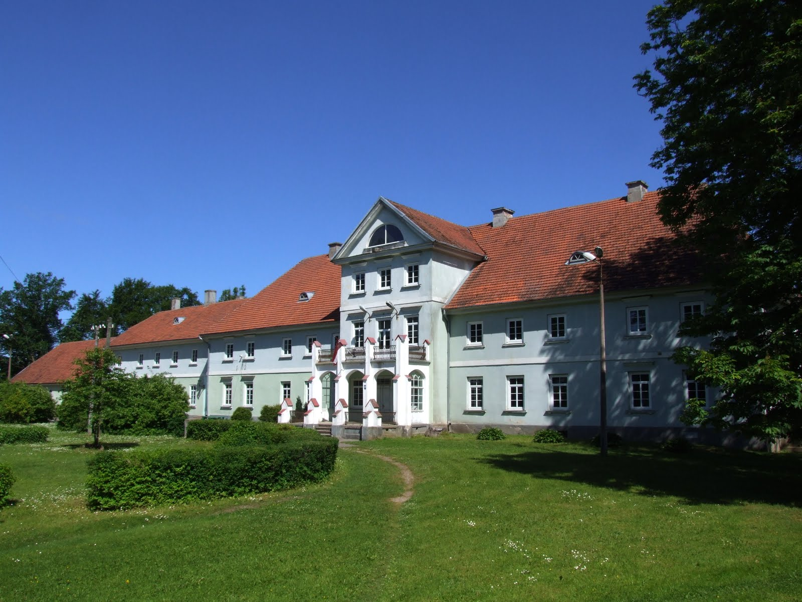 Pope PalaceLatviešu: Popes muižas pils